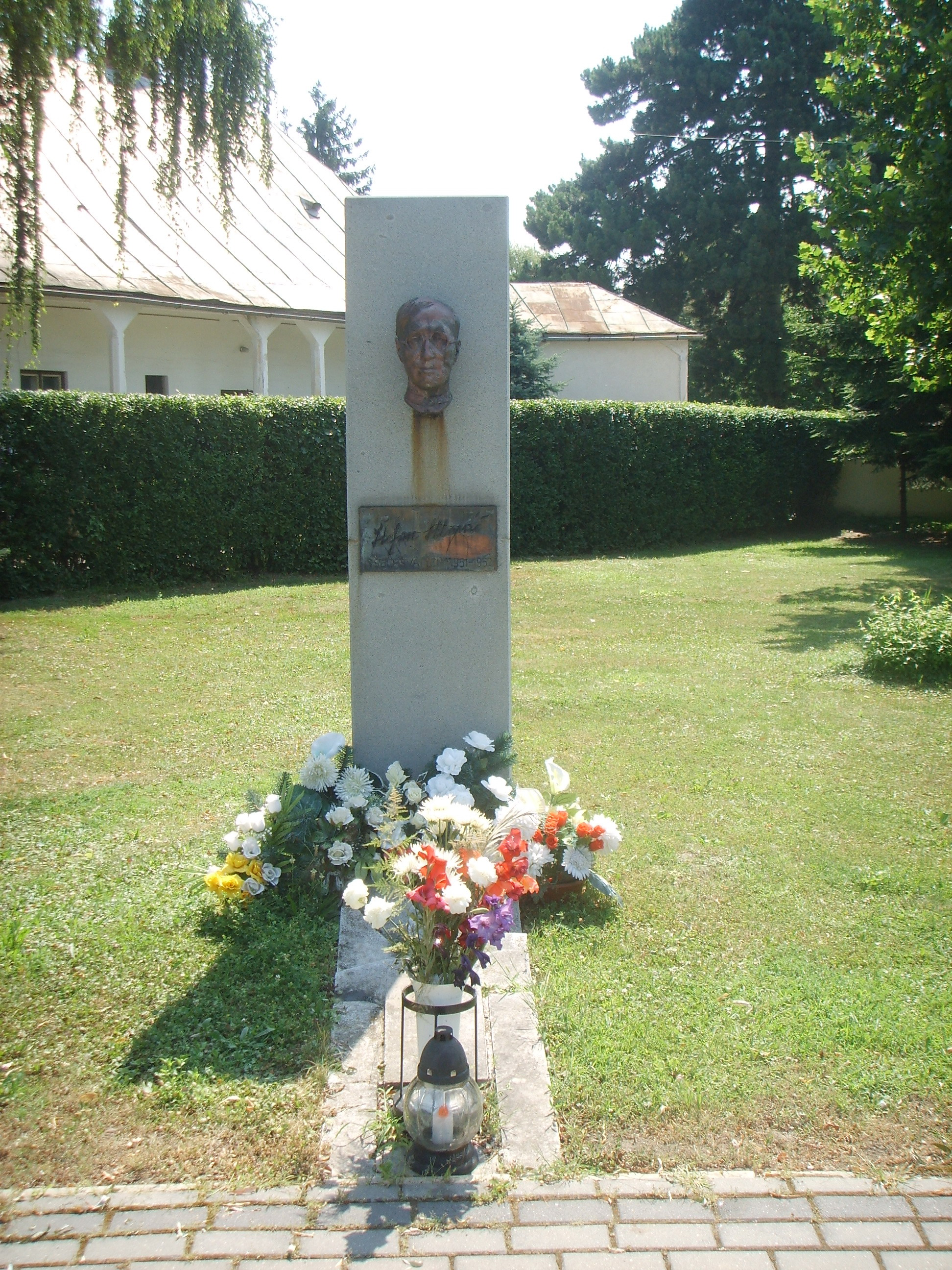 Memorial of pastor Štefan Hlaváč, Valaliky, Košice-okolie District, Slovakia